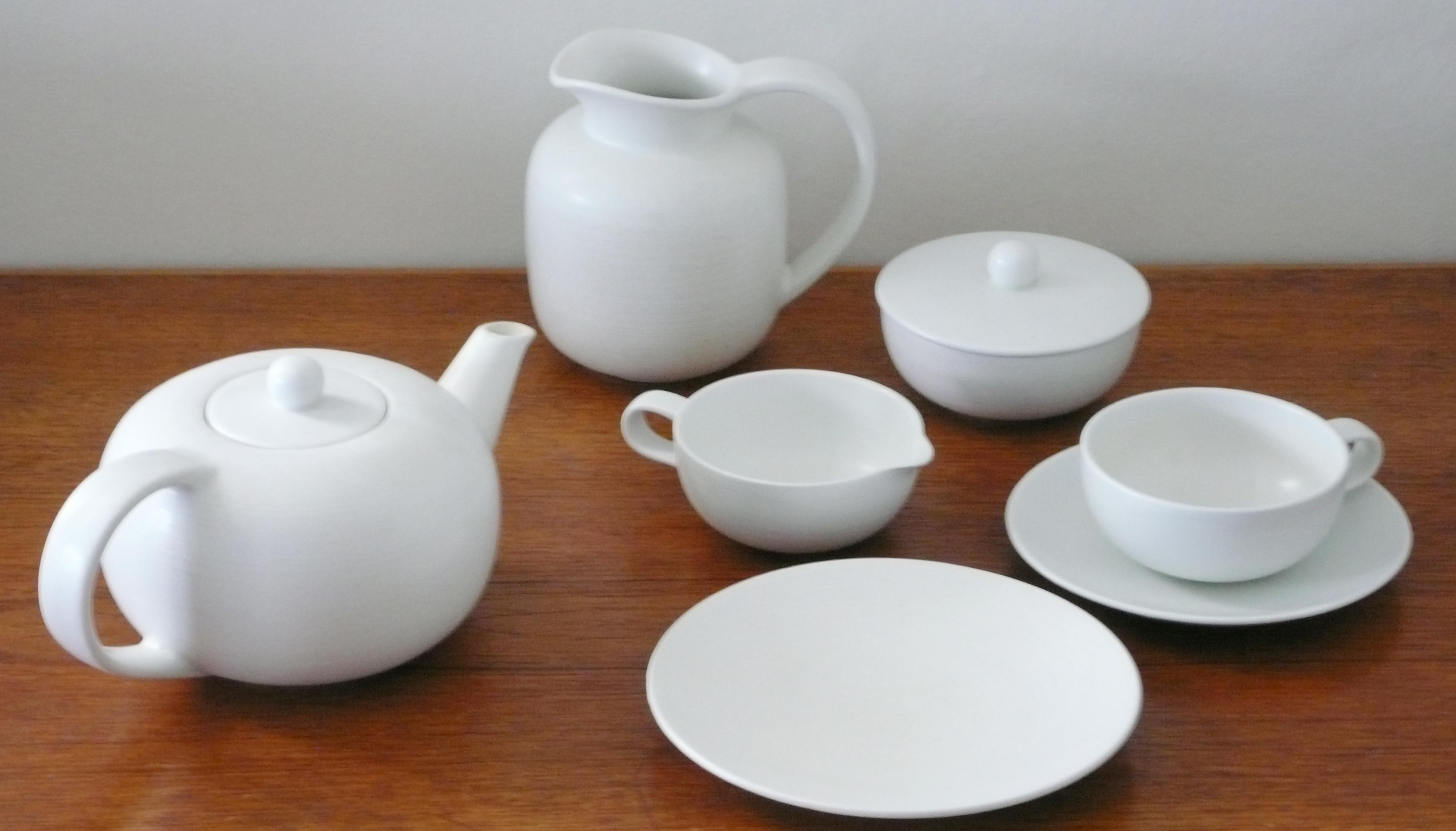 The dishware "Blanche", designed by Gertrud Lönegren